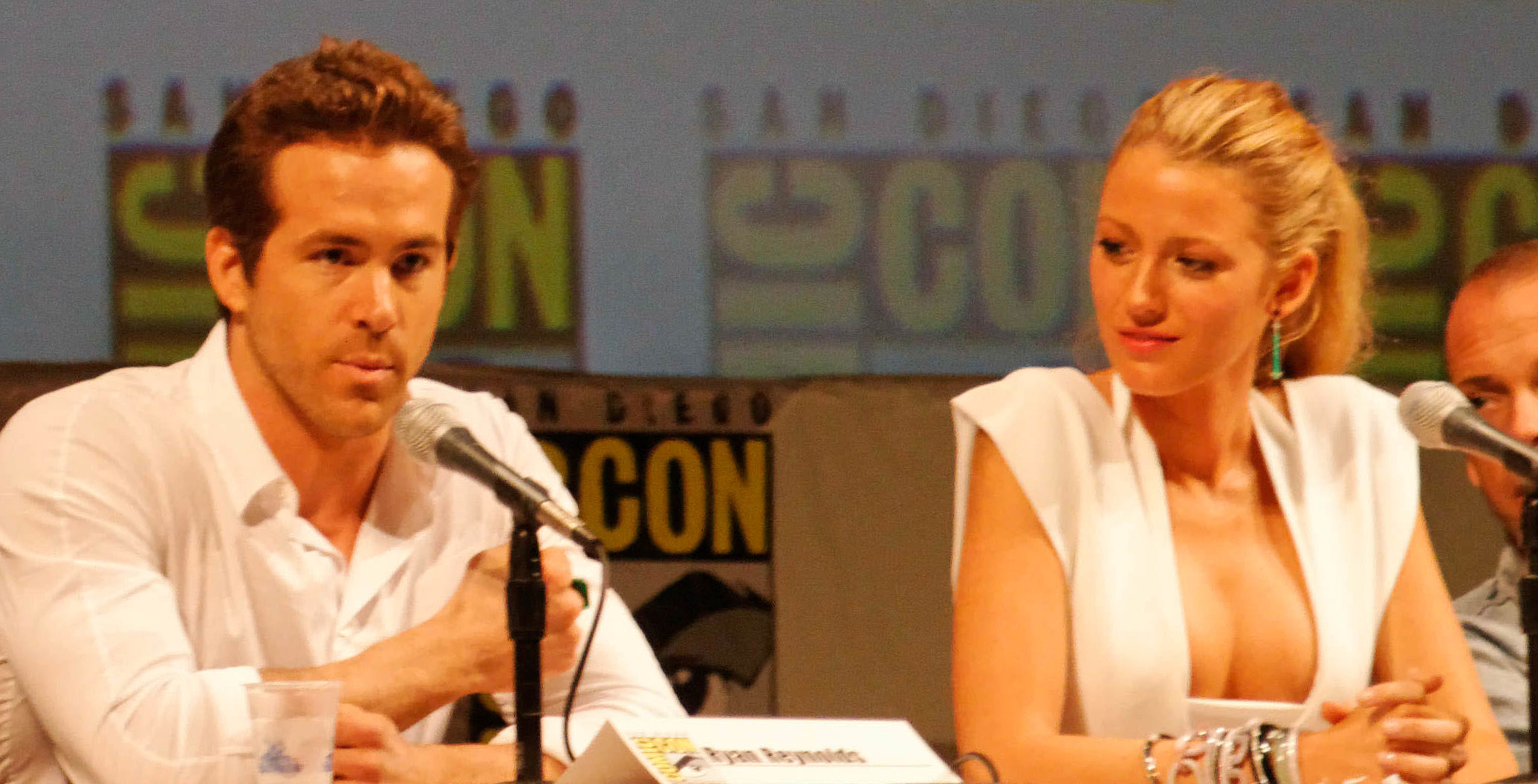 Green Lantern panel at the 2010 San Diego Comic-Con International with Ryan Reynolds, Blake Lively, Peter Sarsgaard and Mark Strong.